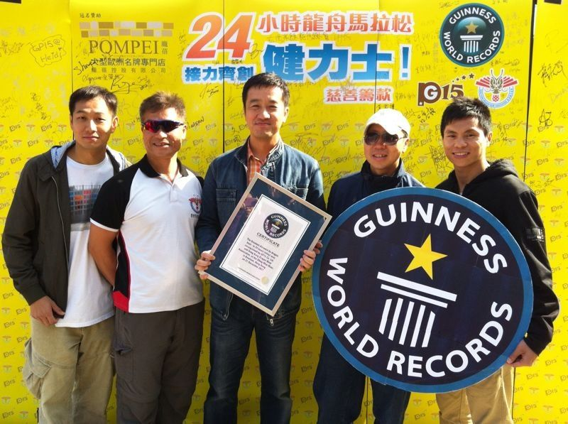 HKDBA Guinness World Record for the Greatest Distance by Dragon Boat in 24 hours.